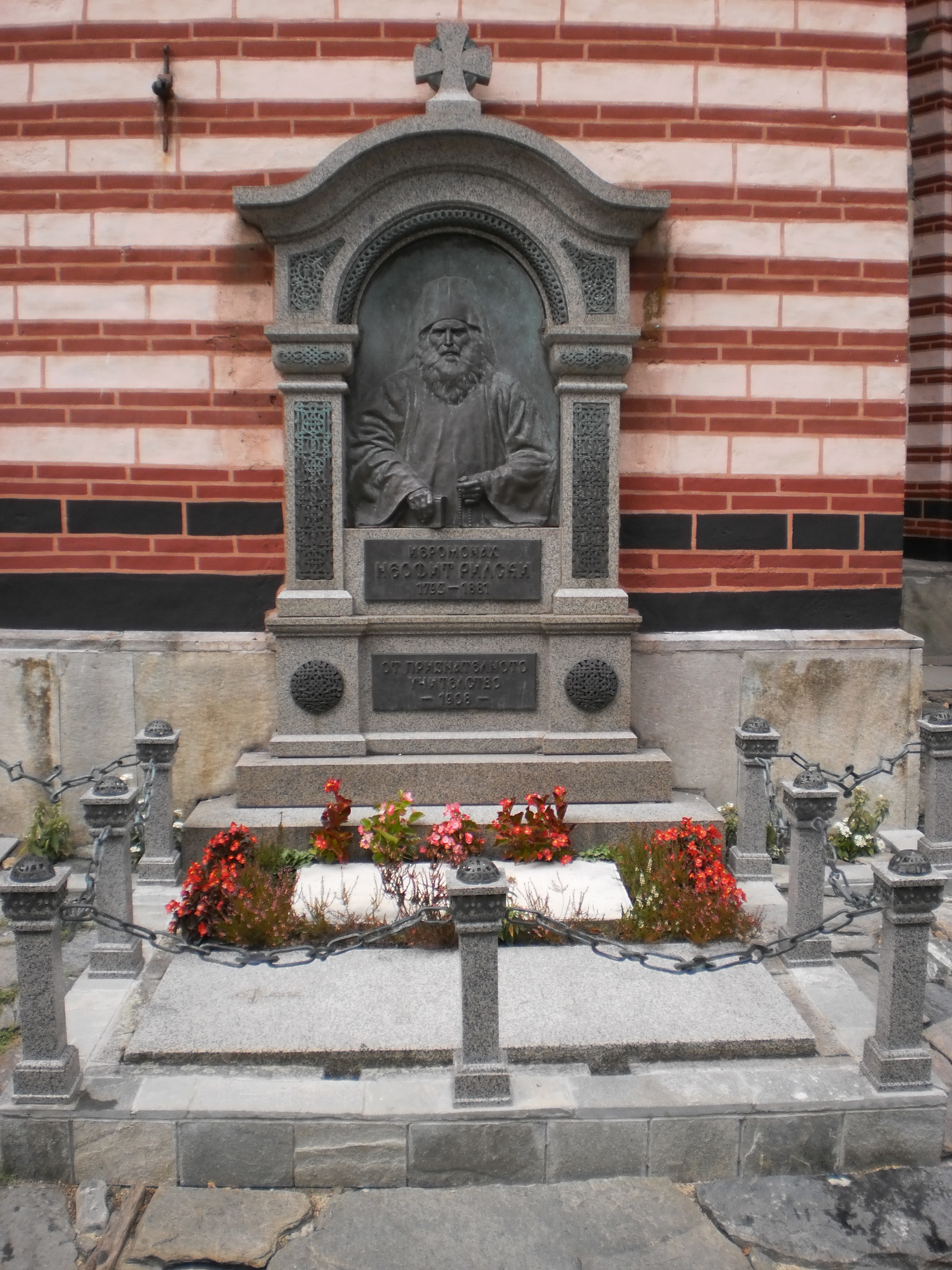 The tomb of Neophyte of Rila (1793 - 1881) in Rila monastery, Bulgaria